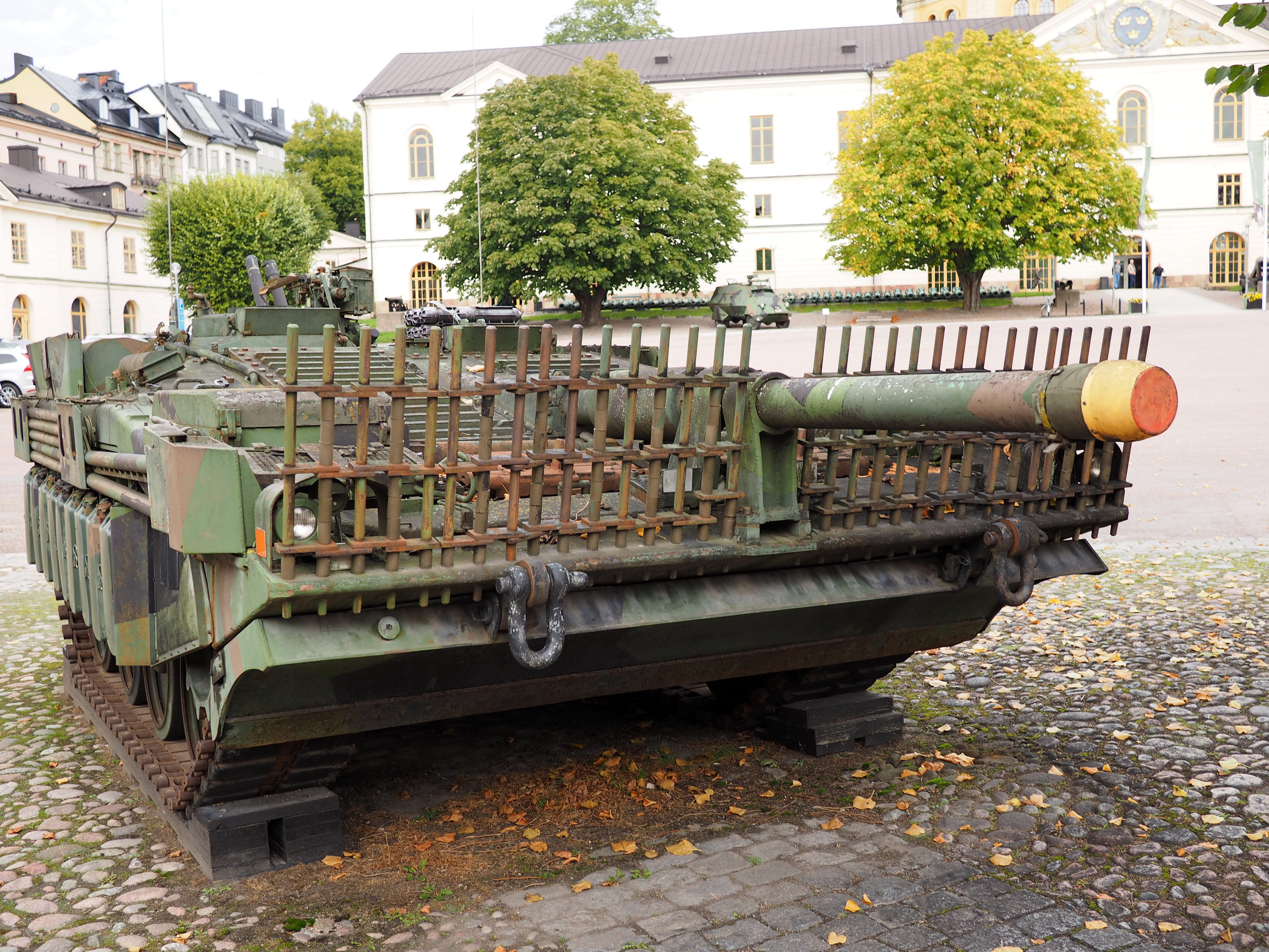 Front view of the Stridsvagn 103 outside the Swedish Army Museum